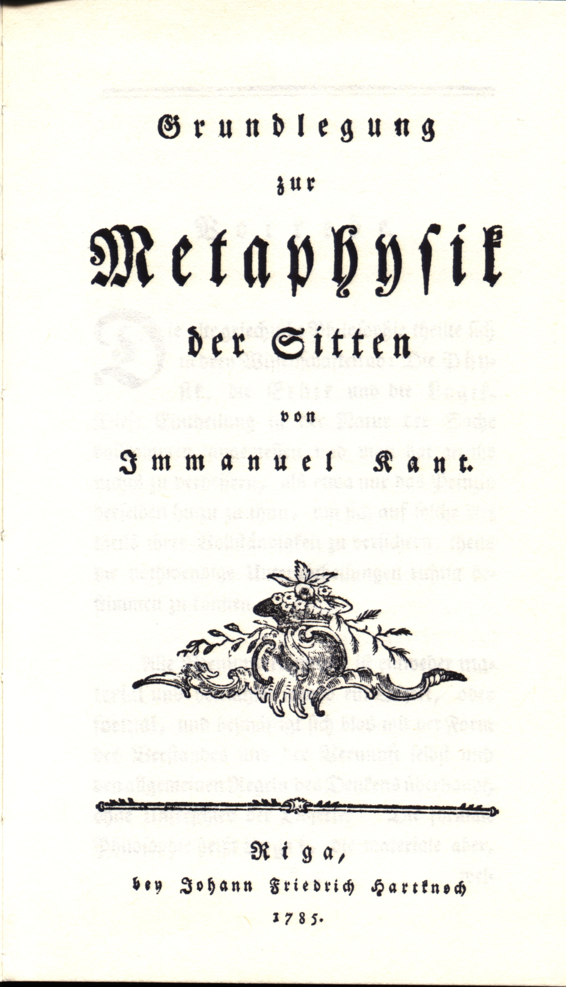 Title page of the first edition of the Groundwork of the Metaphysics of Morals